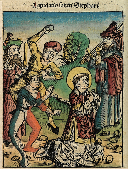 This is a part of a scan of an historical document: Title: Schedelsche Weltchronik or Nuremberg Chronicle